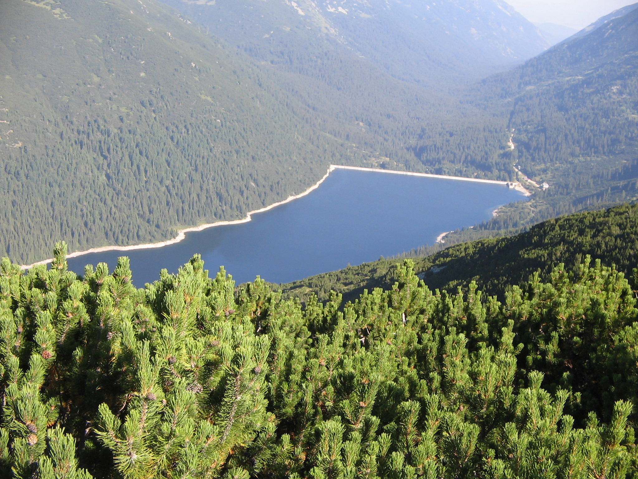 "Beli Iskar" water dam in Rila, Bulgaria. Plants in foreground are Pinus mugo subsp. mugo.